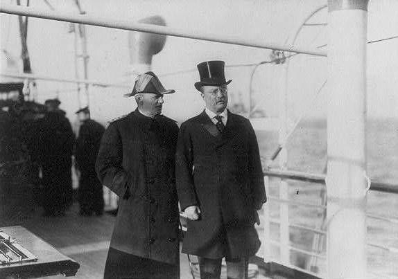 The President and Admiral Evans on the "Mayflower", a photograph by William H. Rau showing Admiral Robley Dunglison Evans (left) and President Theodore Roosevelt aboard the presidential yacht, The Mayflower.